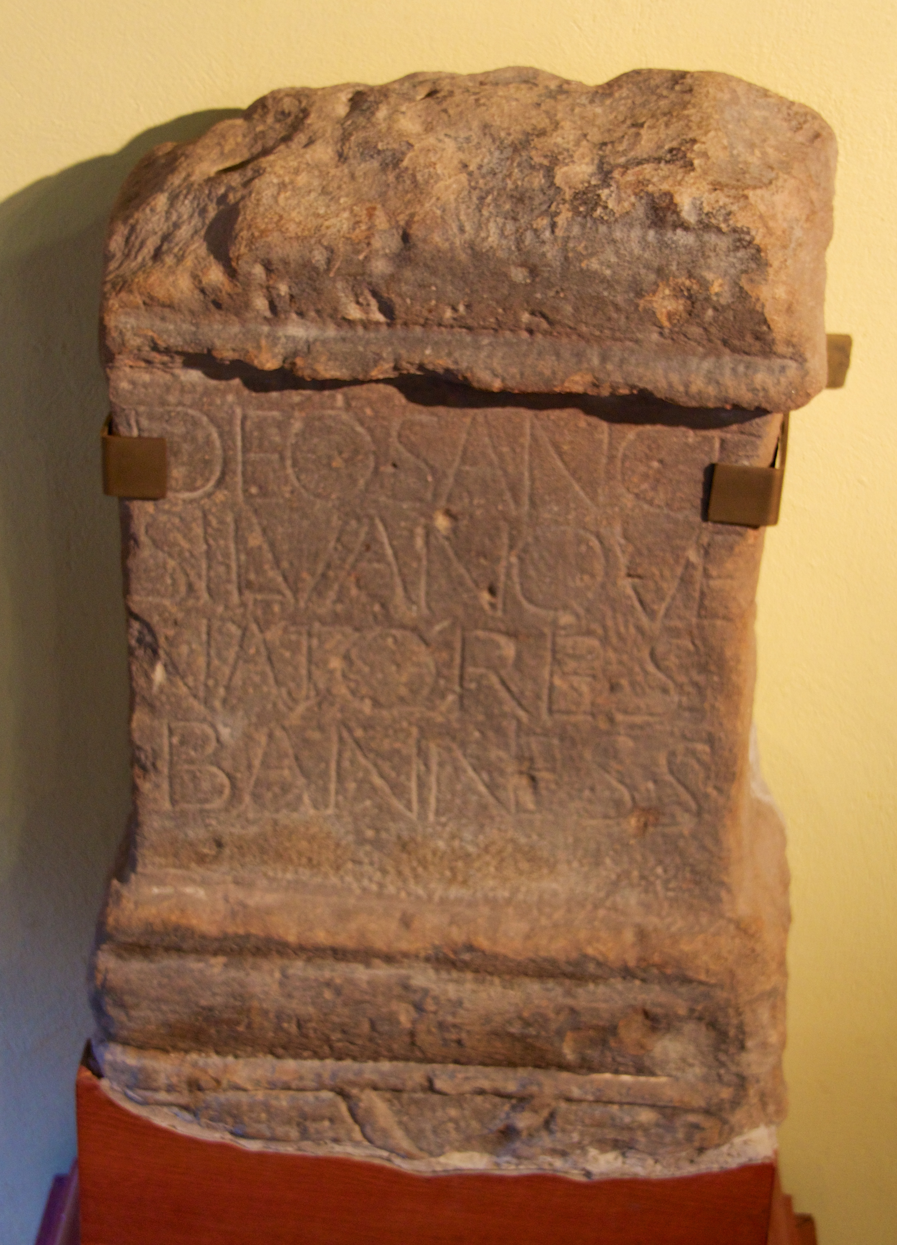 Birdoswald roman fort on Hadrian's Wall. 'Altar, found in Birdoswald in 1821. Missing top and bottom. Engraving reads "Deo Sancto / Silvano ve/natores / Banniess(es)", or "To the holy god Silvanus the hunters of Banna".' CIL VII 830 = RIB I, 1905